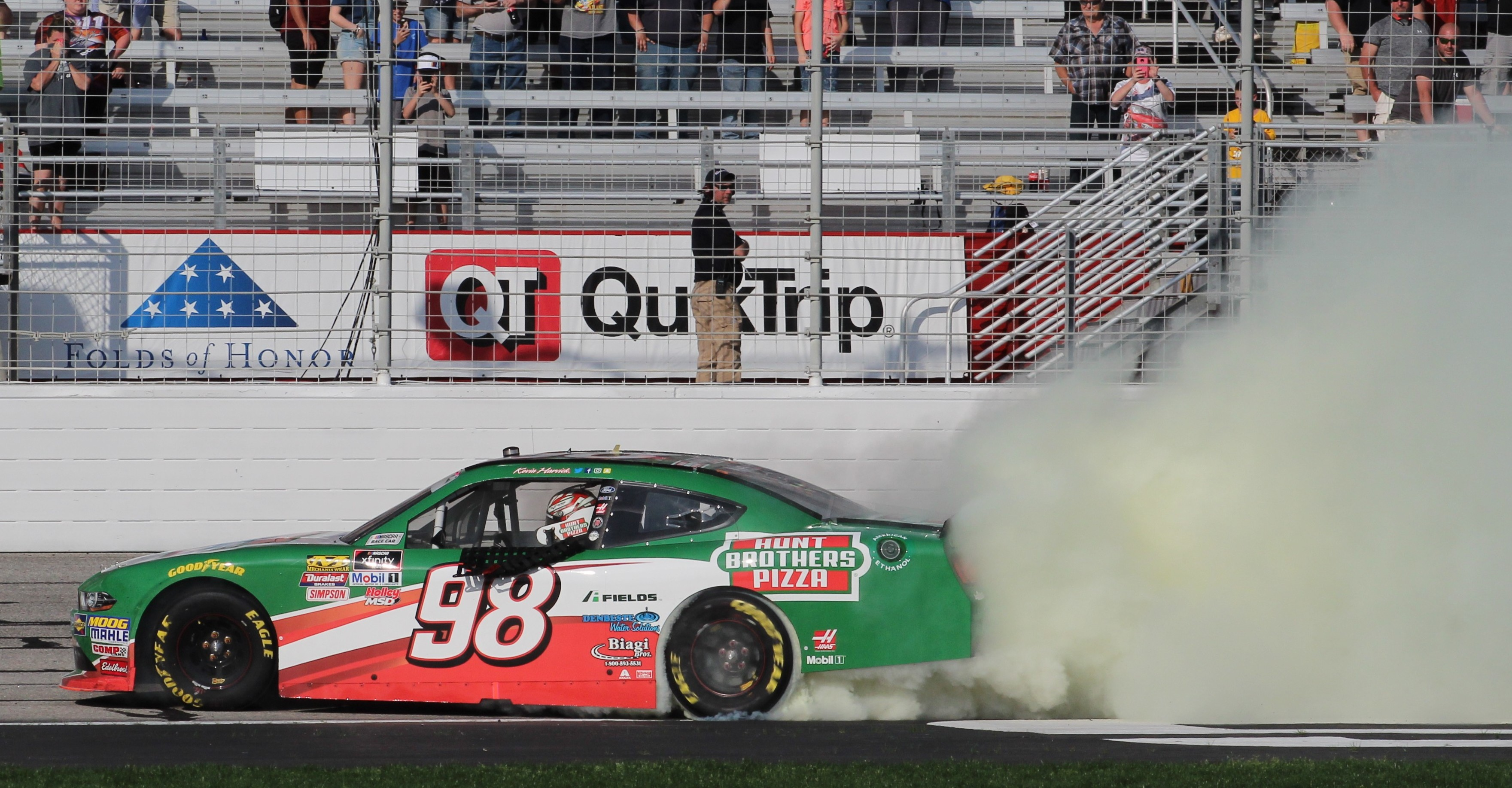 Kevin Harvick performs a burnout after winning the Rinnai 250 at Atlanta Motor Speedway in 2018.